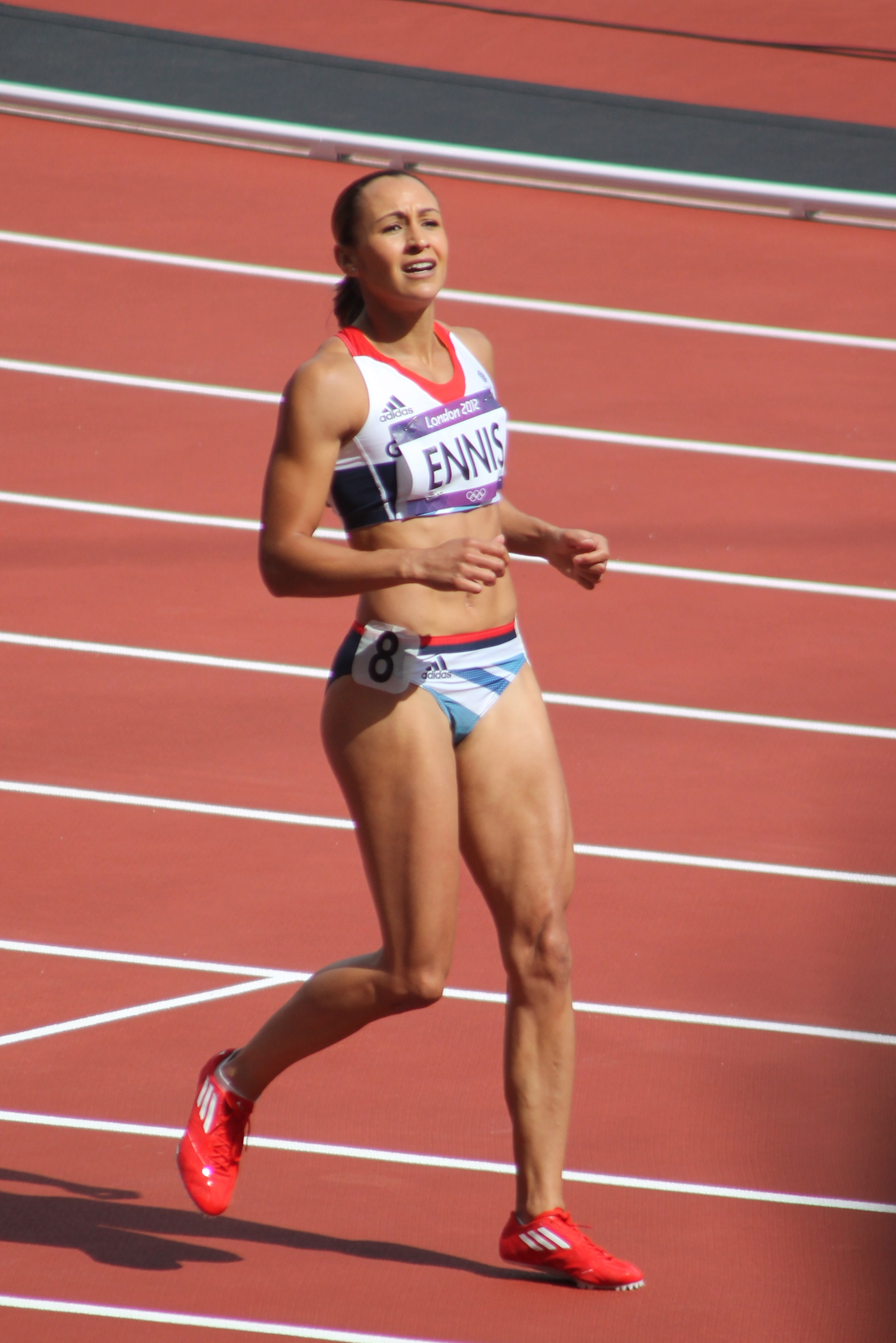 Jessica Ennis in the Olympic stadium, London 2012, at the end of the 100m hurdles heats of the women's heptathlon.